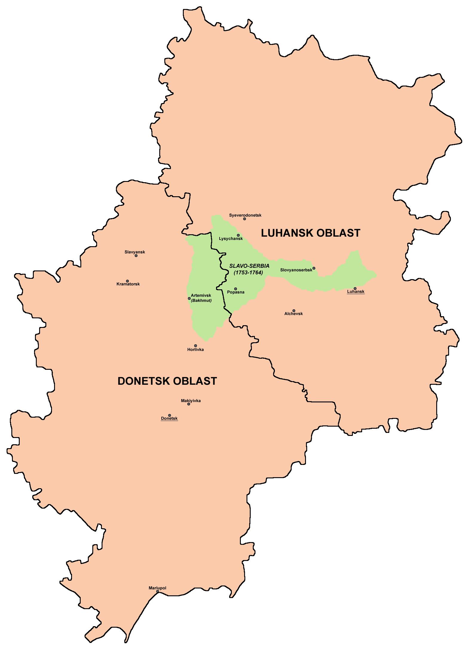 Borders of historical Slavo-Serbia (1753-1764) compared with borders of modern Luhansk Oblast and Donetsk Oblast of Ukraine.